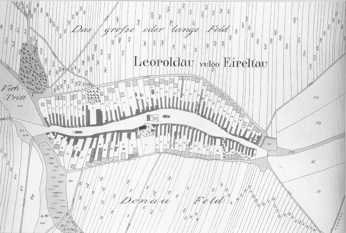 Map of Leopoldau (19th Century) (Wien, Austria)